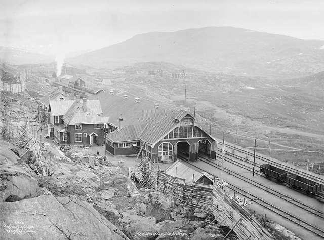 Riksgränsen Station on the Norway/Sweden border, on the railways Ofotnen Line / Iron Ore Line